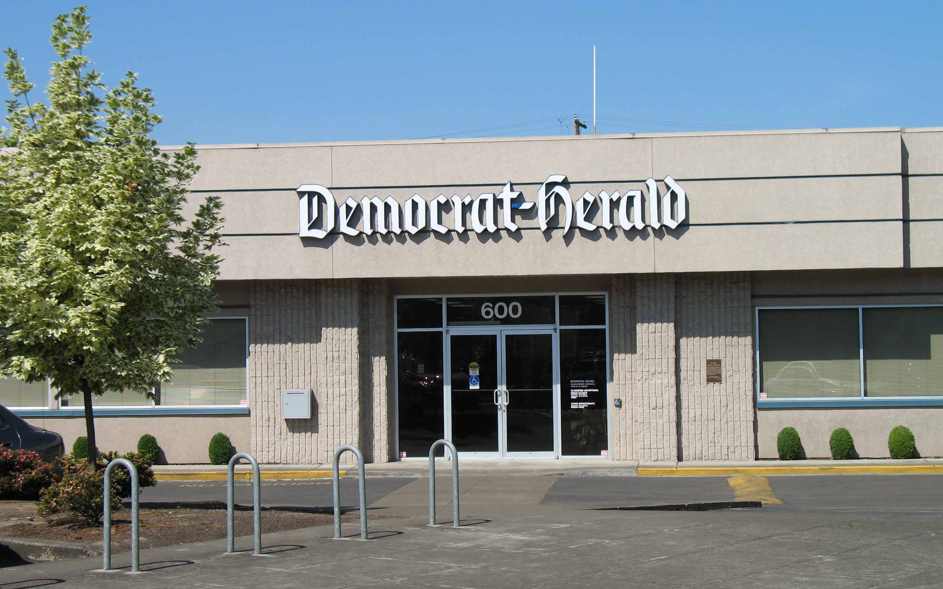 Albany Democrat-Herald building